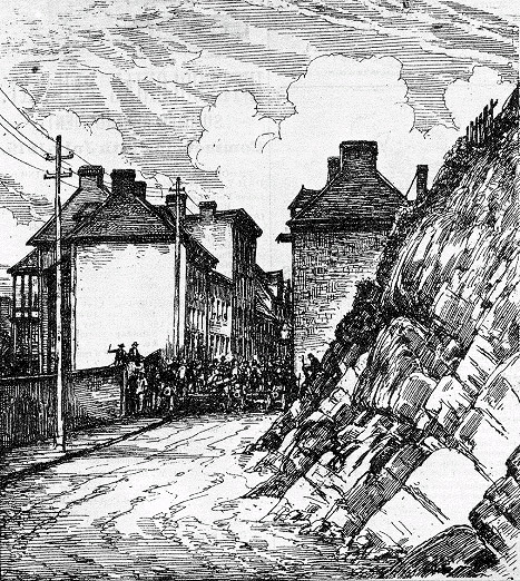 The Quebec Riots. The Barricade on Champlain Street